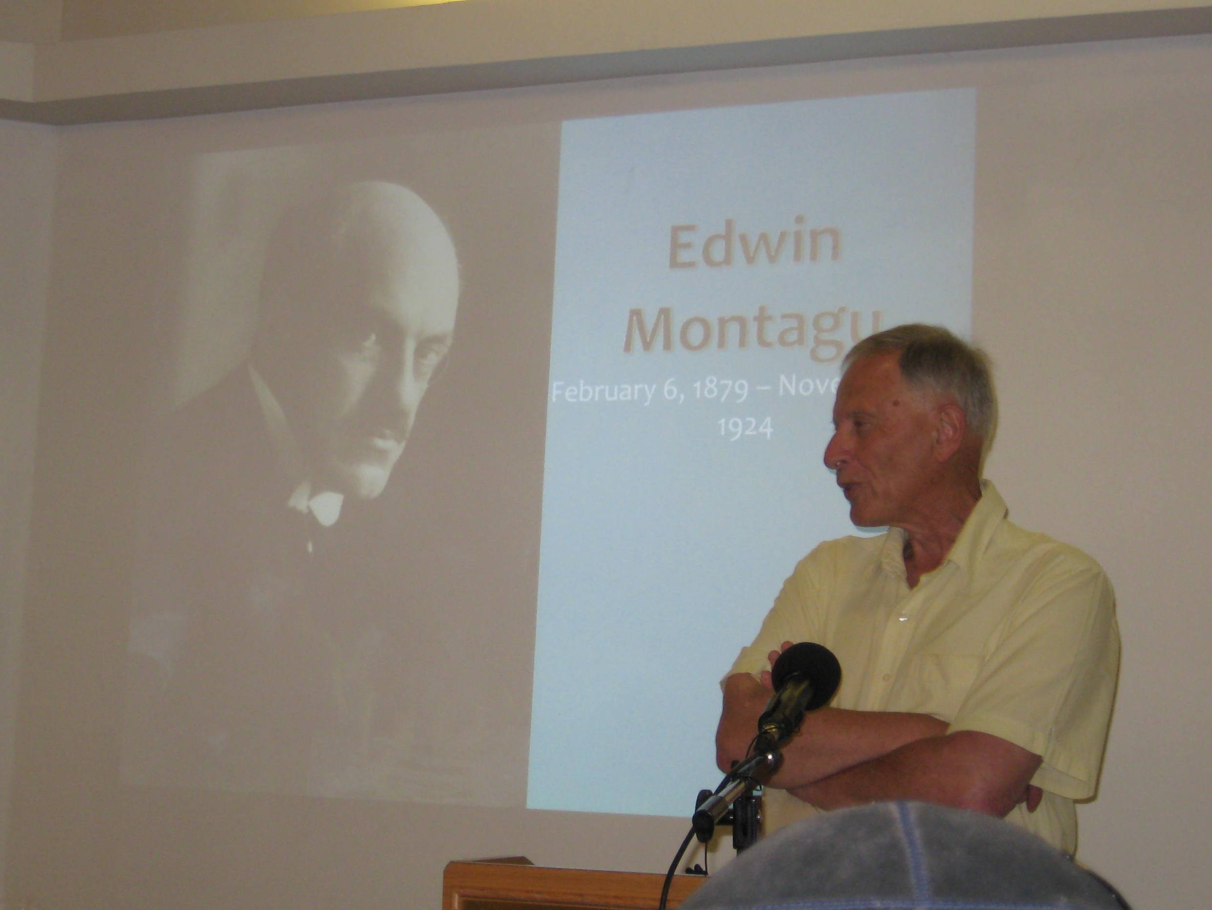 Professor Robert S. Wistrich presenting his talk on Jewish Anti-Zionism at the SICSA International Conference "Anti-judaism, Antisemitism, Delegitimizing Israel" 2014 in Jerusalem